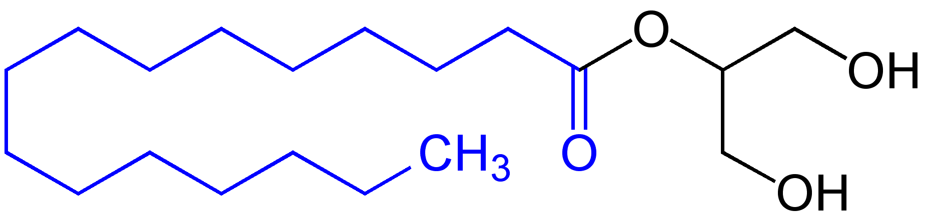 Monoglyceride_Structural_Formula